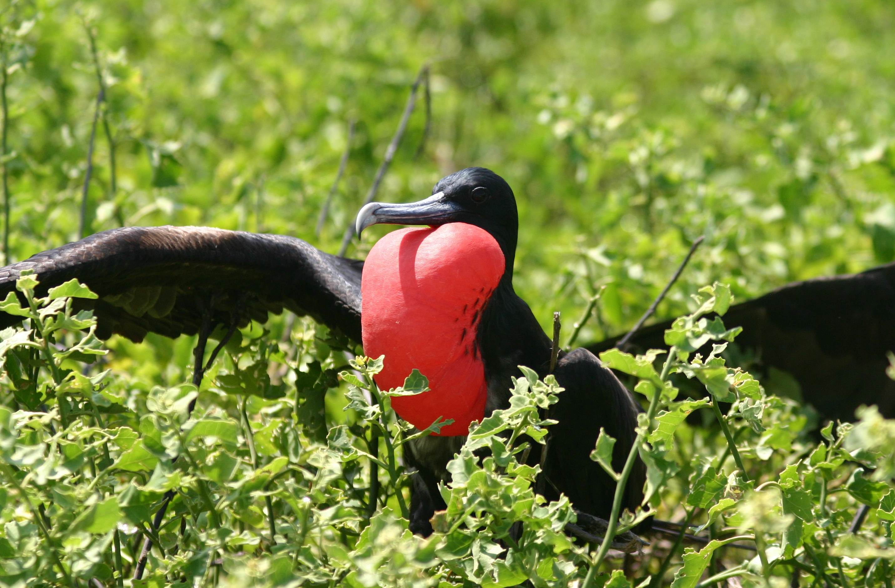 Male greater frigate bird displaying. Photograph taken on Genovesa Island (El Barranco) in the Galapagos Islands using Canon EOS300D and Canon 300mm Image Stabilizer EF lens with Skylight 1A filter.